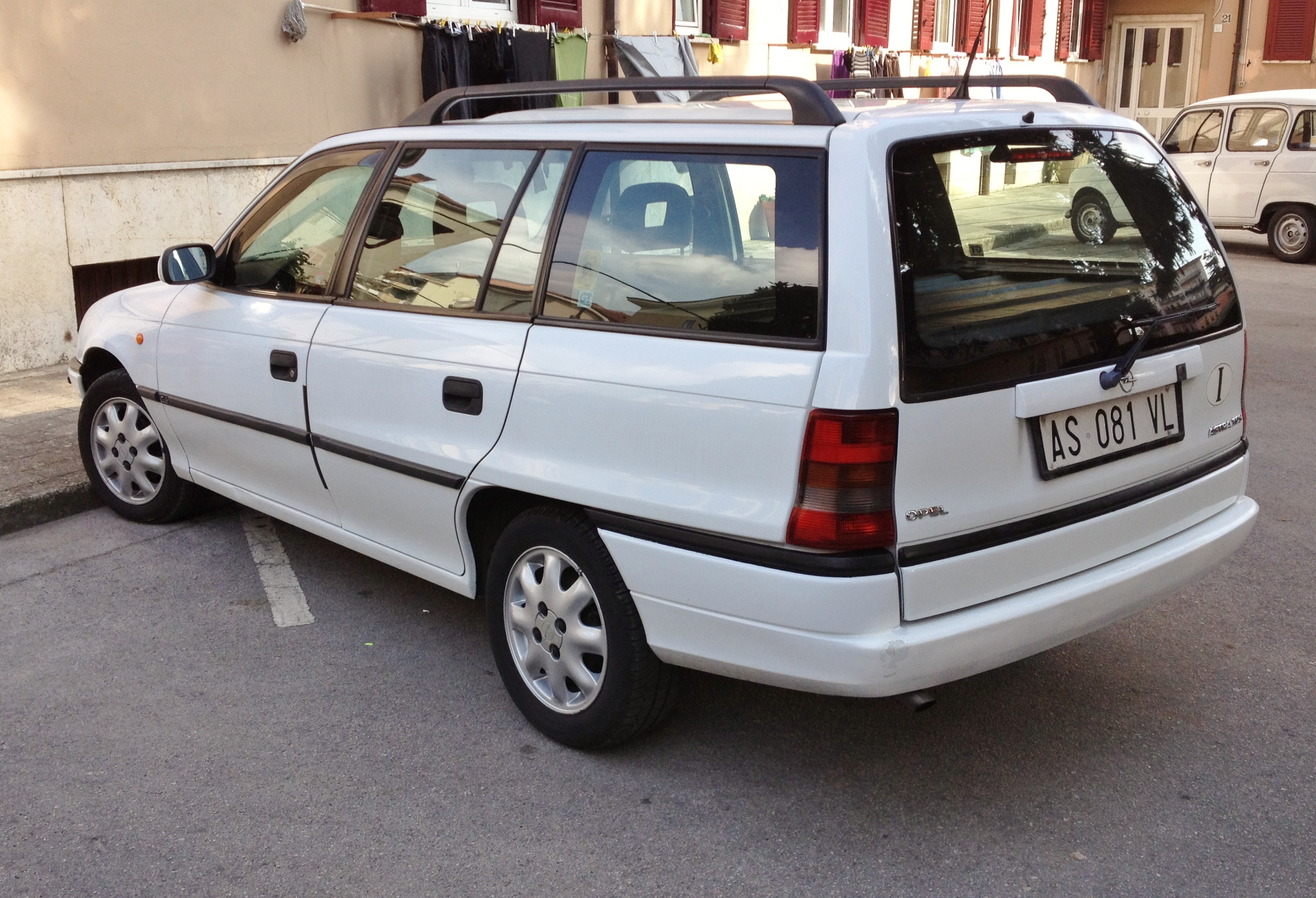 Opel Astra F Caravan 1.7 TDS Club rear